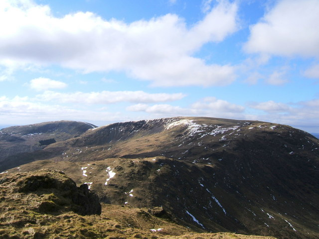 Lamachan 717 metres photographed from the summit of Curlywee Lamachan Hill 717 metres photographed from the top of Curlywee on a lovely day in March 2007. Larg Hill is the hill in the distant left hand side of the photo with Bennanbrack shown in the foreground. All are hills in the Minnigaff range of the Galloway hills. There is a super ridge walk between Lamachan and Curlywee which also takes in Bennanbrack.